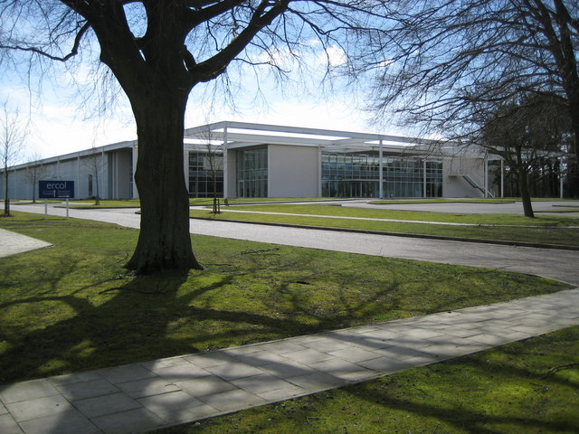 Princes Risborough: ercol workshop and showroom Lucian Ercolani (1888-1976), son of an Italian pictureframe maker, started his furniture design business in High Wycombe in 1920, perfecting his technique of steam-bending wood, and later using elm, a wood other furniture makers considered impossible to work with. In the late 1940s he created his nationally famous ercol range of furniture. In 2002 ercol moved to this brand new 160,000 square foot workshop and showroom on the Princes Estate off the B4444 Summerleys Road in Princes Risborough. The building is also the company's factory outlet where ex-display items, returns and seconds can be bought by the general public. The ercol website is here